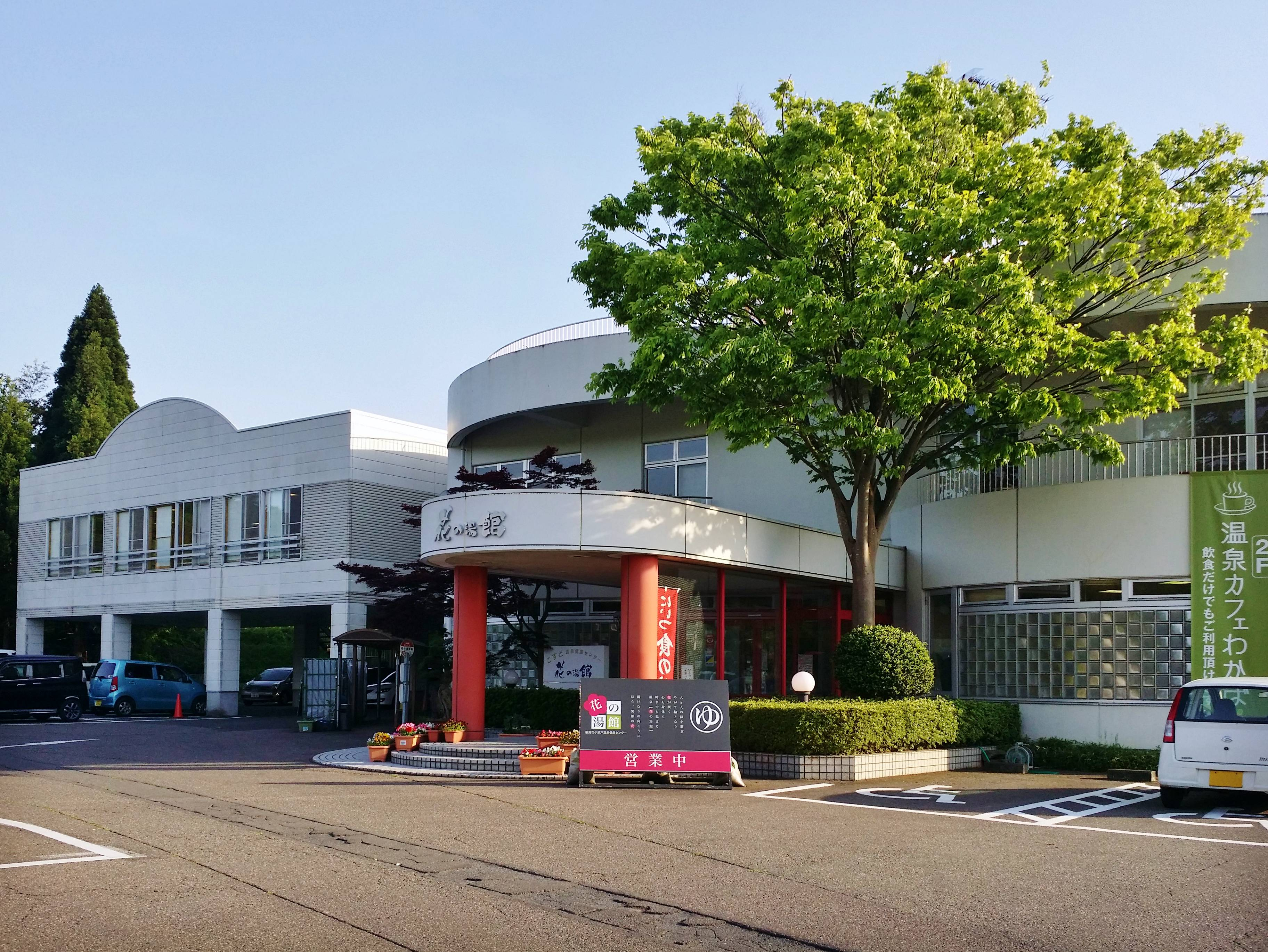 Kosudo Spa Health Center.